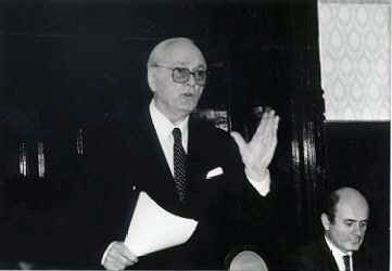 Dr. Béla Király (14 April 1912 – 4 July 2009) was a Hungarian army officer before, during, and after World War II. After the war, he was sentenced to life in prison under the Soviet-allied regime, but was later released. After his release, he commanded the National Guard in the 1956 Hungarian Revolution. He then fled to the United States, where he became an academic historian. He returned to Hungary after the collapse of the Soviet Bloc and was elected a member of Hungarian Parliament.